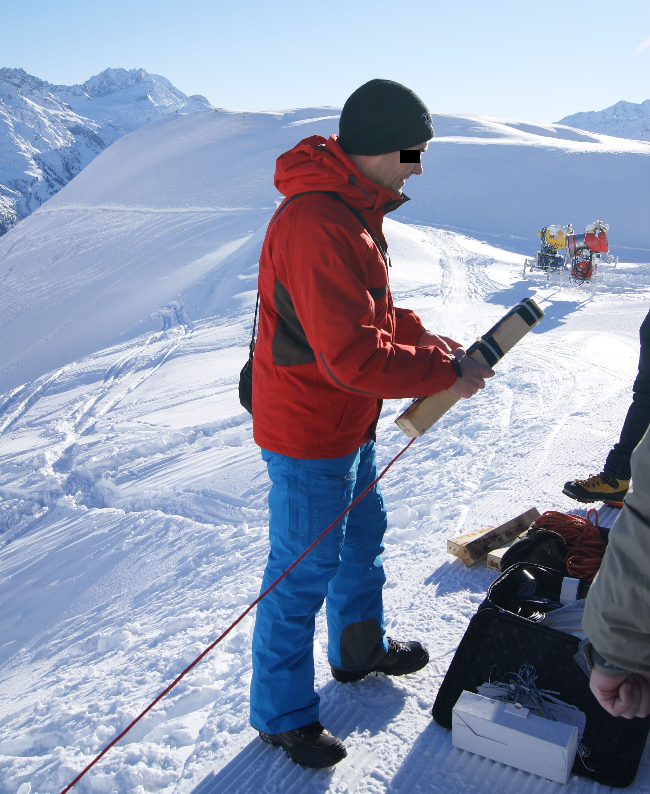 Avalanche blasting (avalanche dispersion) by hand. Preparation for the throw (Dummy).